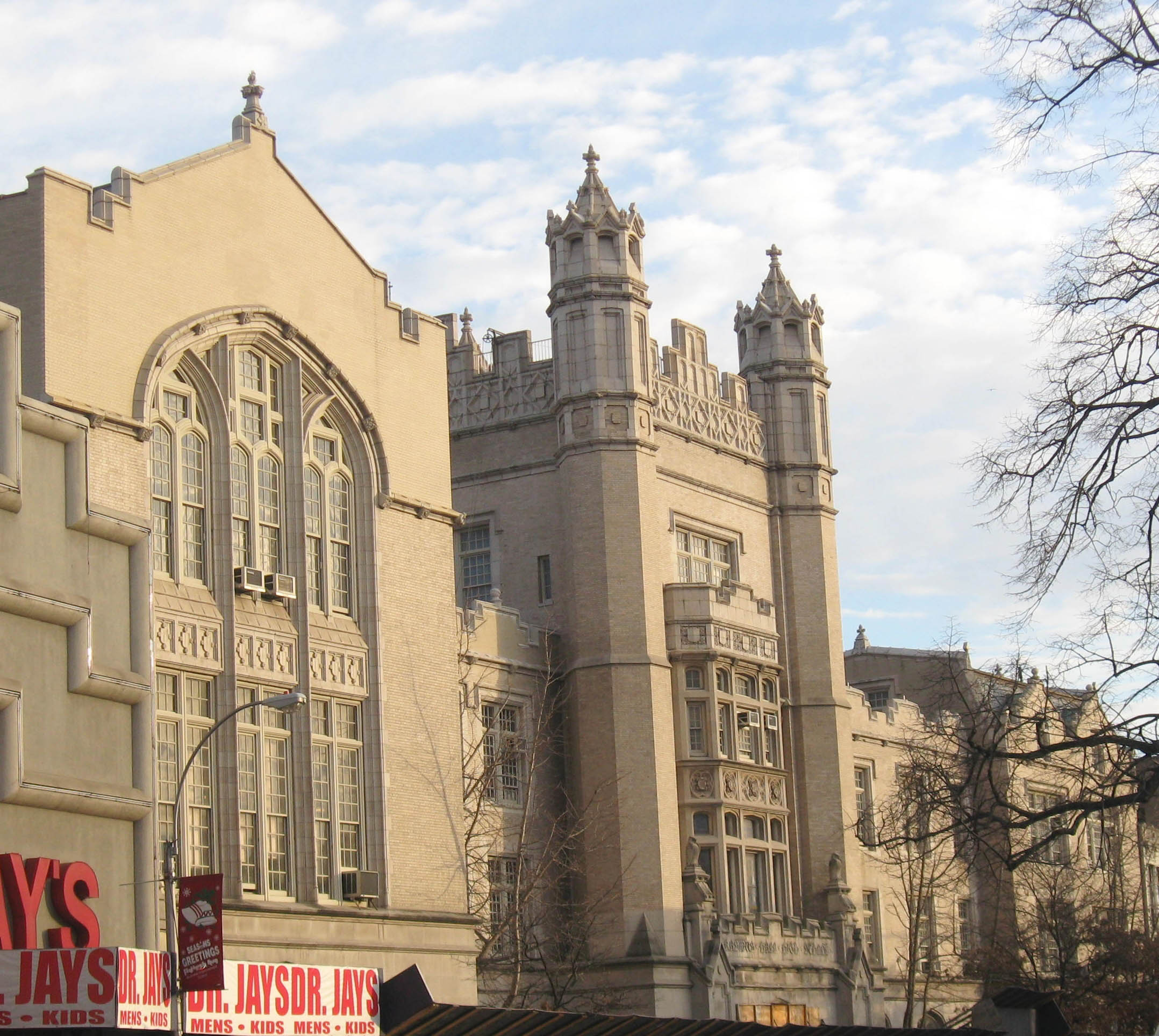 Looking southeast across Flatbush Avenue at Erasmus Hall High School on a cloudy afternoon. See also File:Erasmus Hall HS jeh.JPG